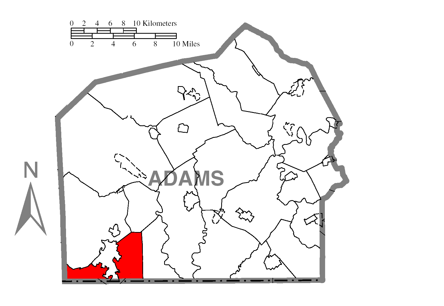 A map of Adams County showing Liberty Township, Pennsylvania (alternate) highlighted on the map.